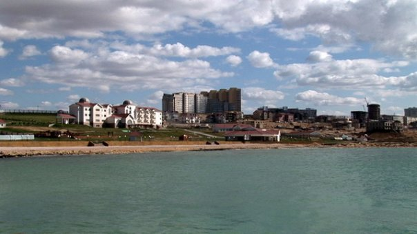 from